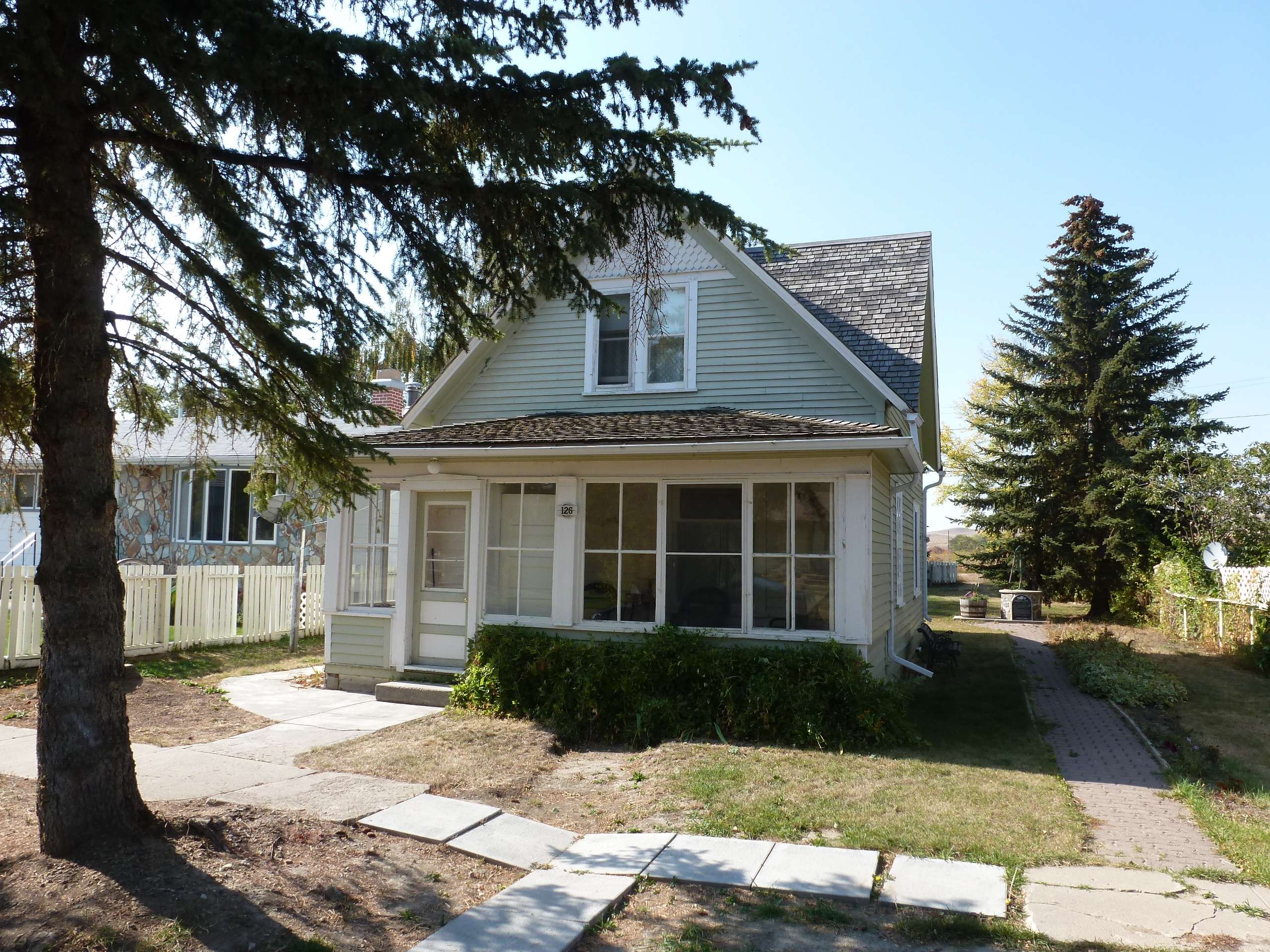 Wallace Stegner Boyhood Home Eastend, SK